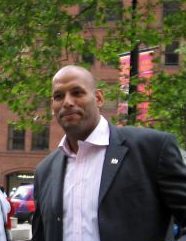 John Amaechi, NBA basketball player and Channel 5 broadcaster, photographed in Manchester.